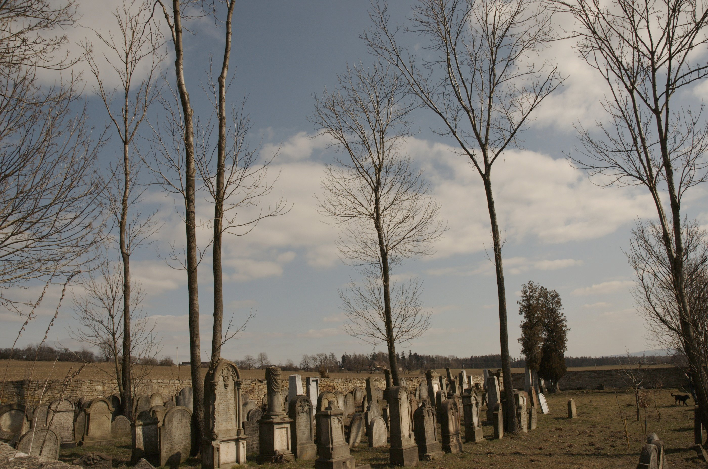 Near the village called "Malá Bukovina", in the north of Czech Republic. Nice and quiet place, just in the middle of field above the village.